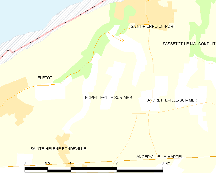 Map of French municipality Écretteville-sur-Mer